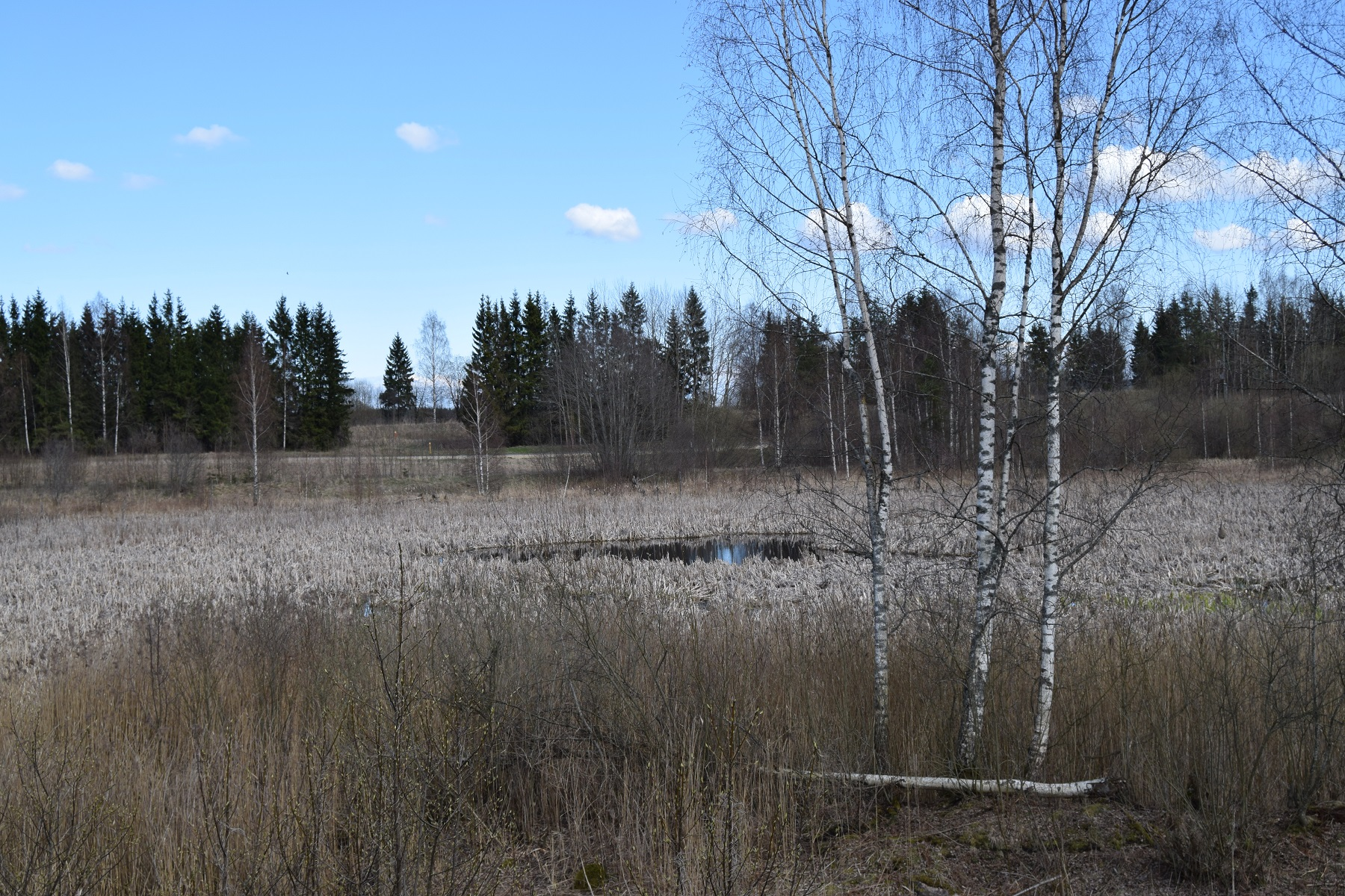 Plaki järv